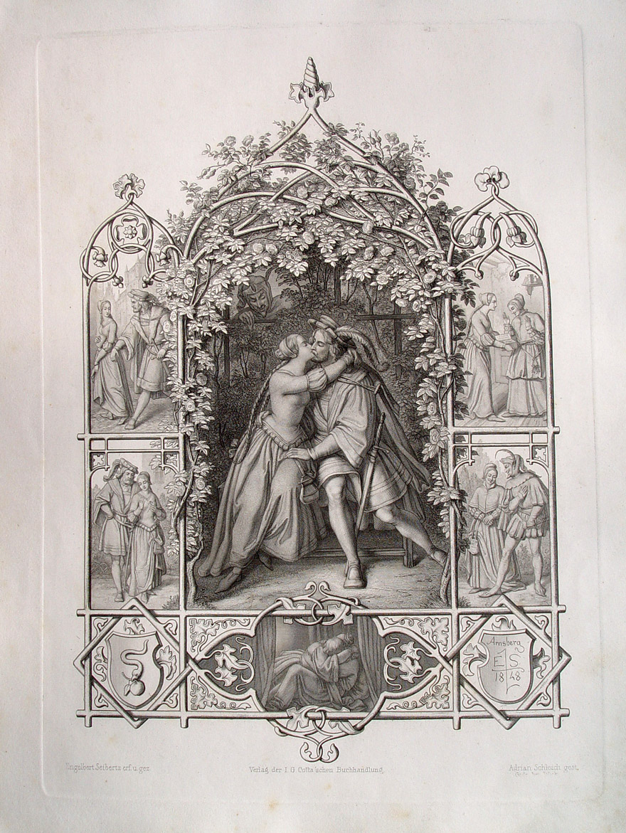 Goethes Faust